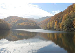 Вештачко акумулационо језеро